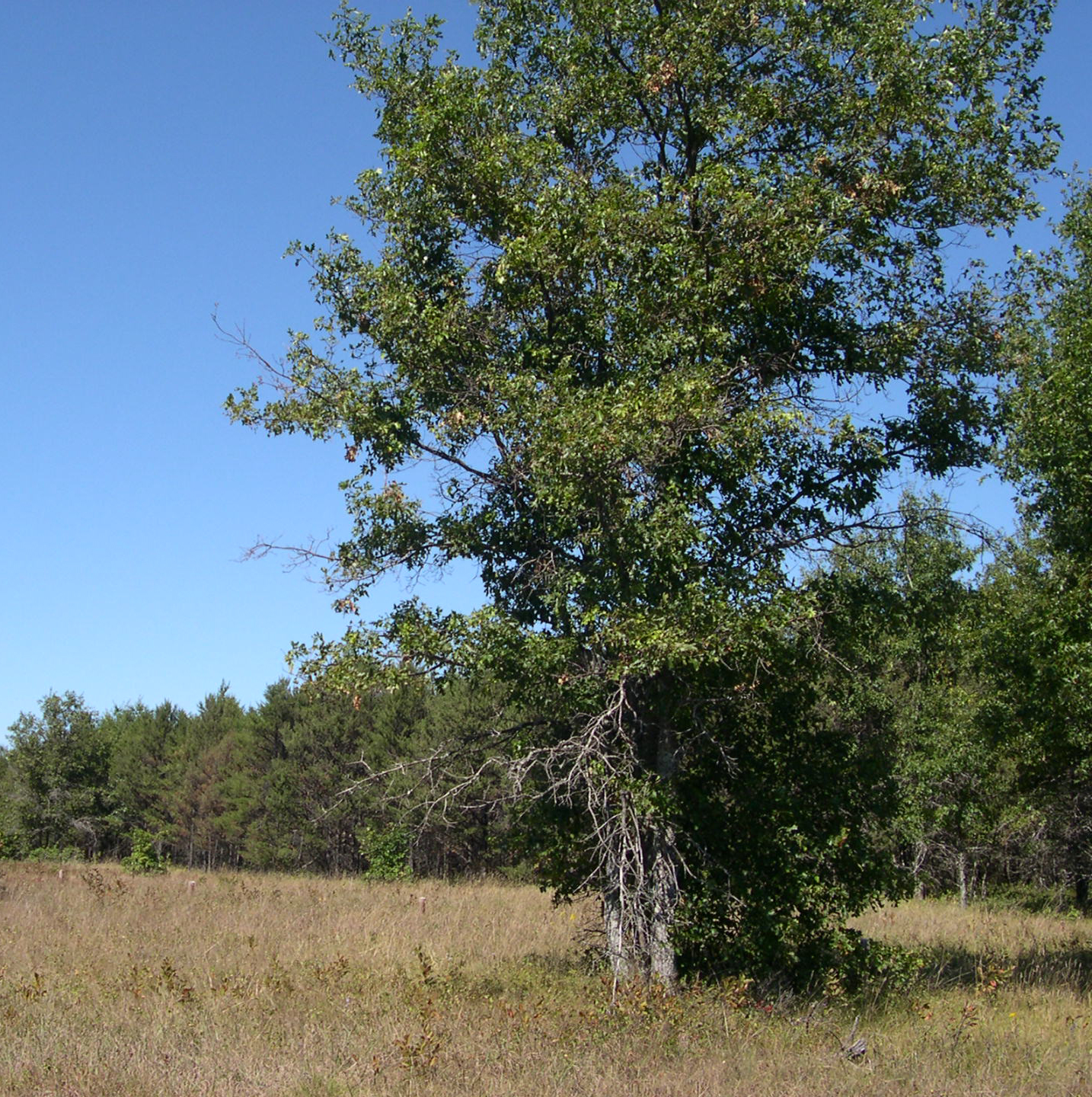 Quercus ellipsoidalis — Northern Pin Oak, Hill's Oak. Near Mack Lake, Mio, Oscoda County, Michigan.